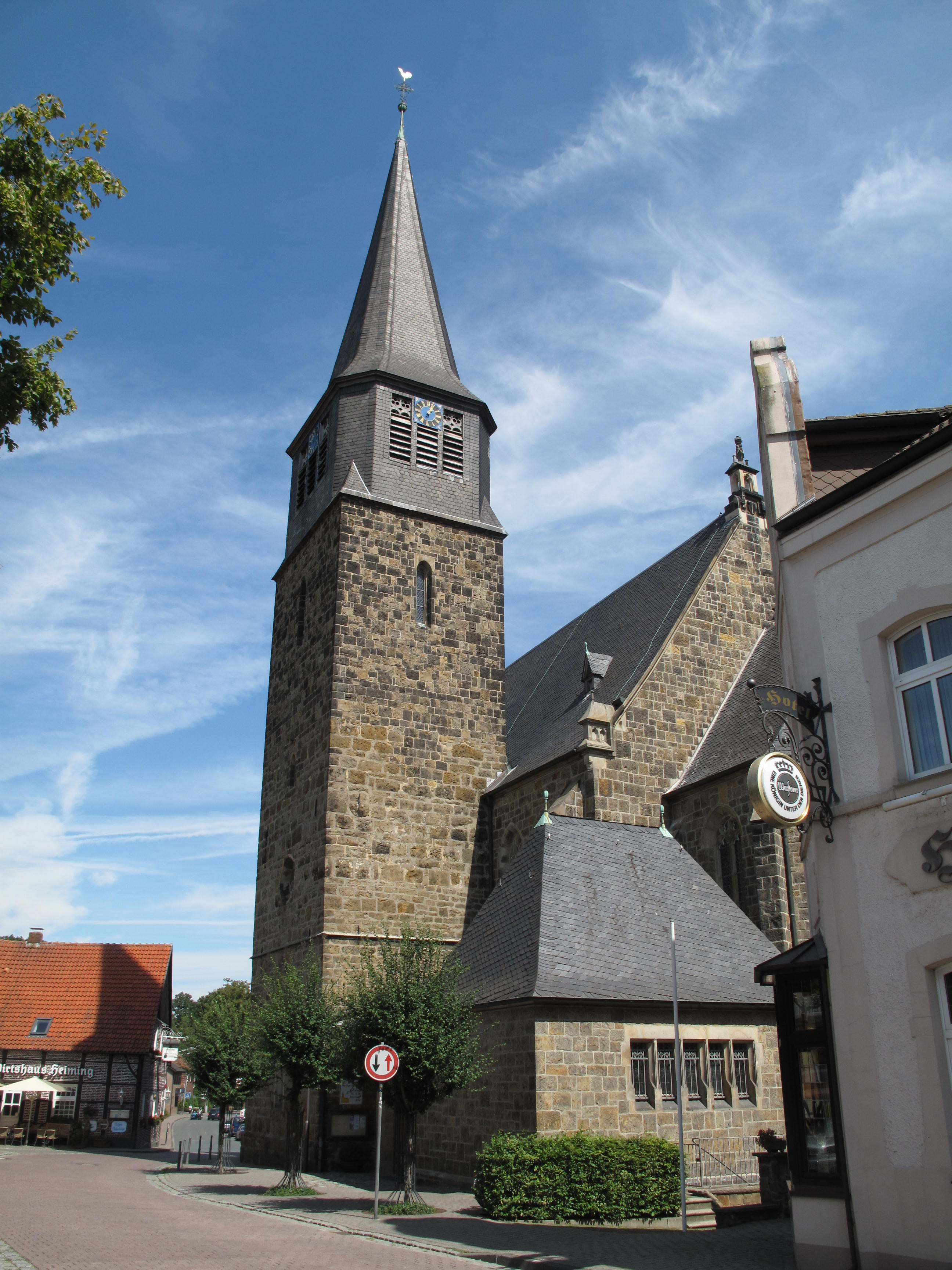 Klein Reken, church: Sankt Antoniuskirche